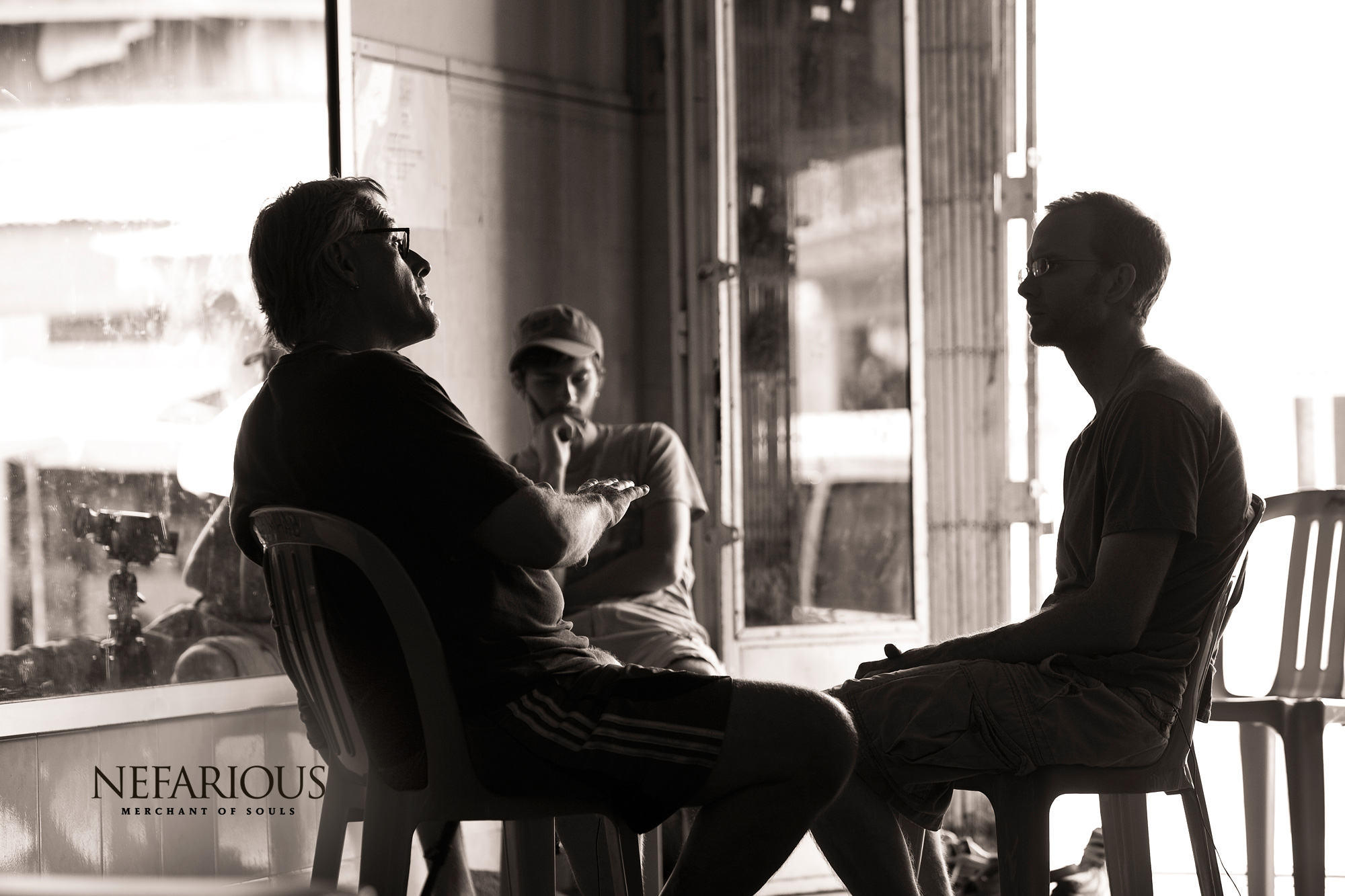 A photograph of an interview between Don Brewster (left) and Benjamin Nolot (right) for the film Nefarious: Merchant of Souls.